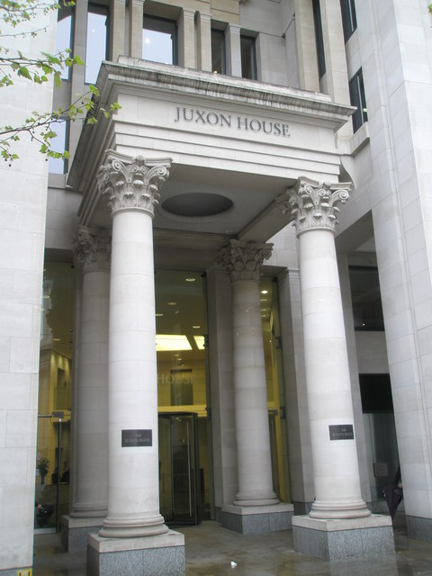 Entrance to Juxon House in St Paul's Churchyard Taken on the Pepys Walk, a circular walk around the City of London and the South bank starting and finishing at St Paul's Cathedral.